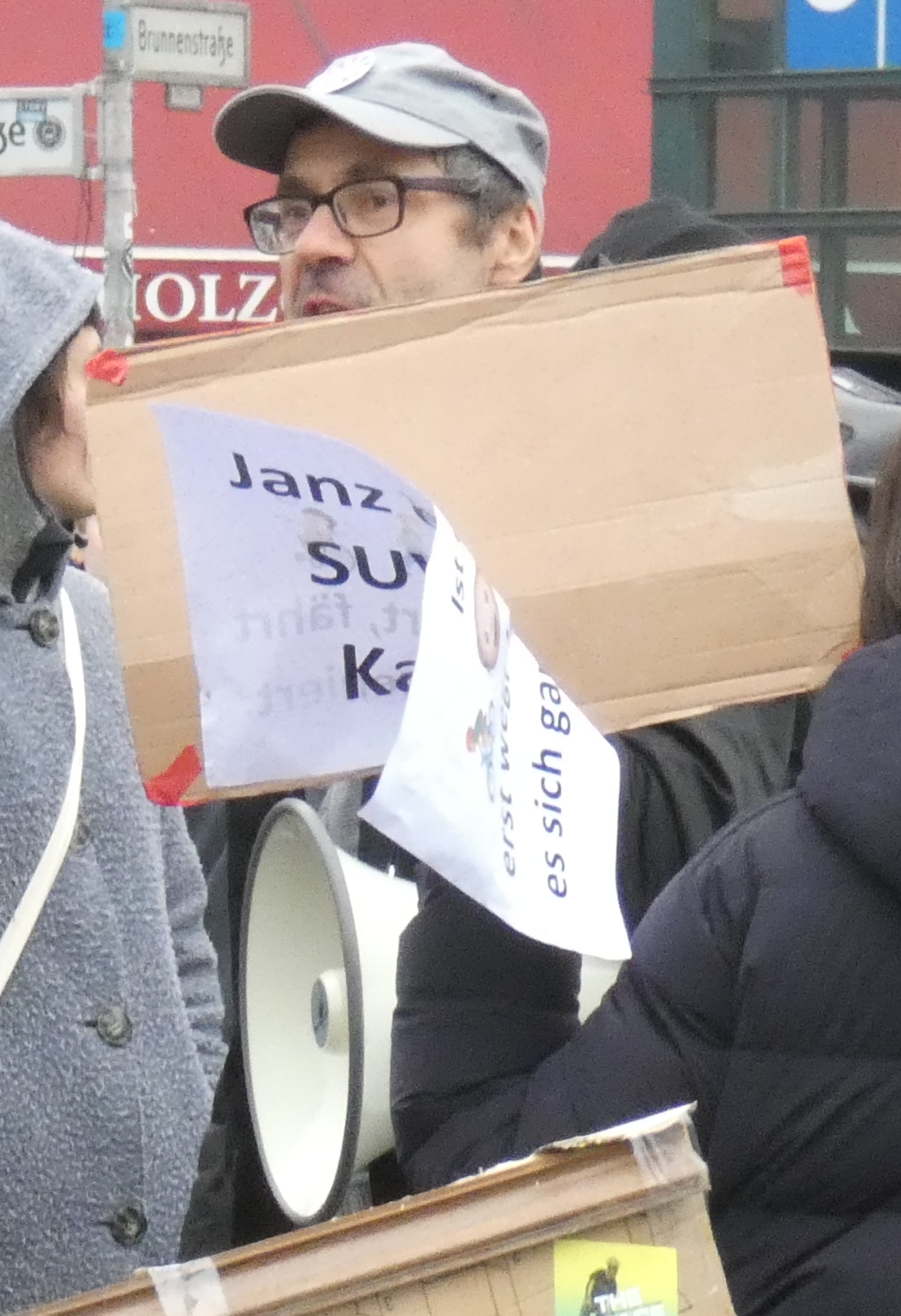 The Platz da für mein SUV?! protest promoted a city limit of 70 and a minimum speed of 250 kph on the Autobahn